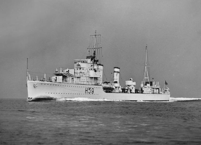 Photograph of British G class destroyer HMS Gallant.